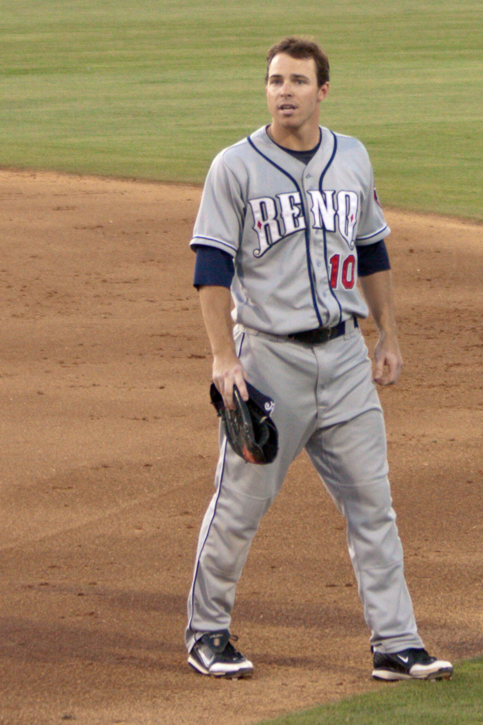 Trent Oeltjen of the Reno Aces at Raley Field.